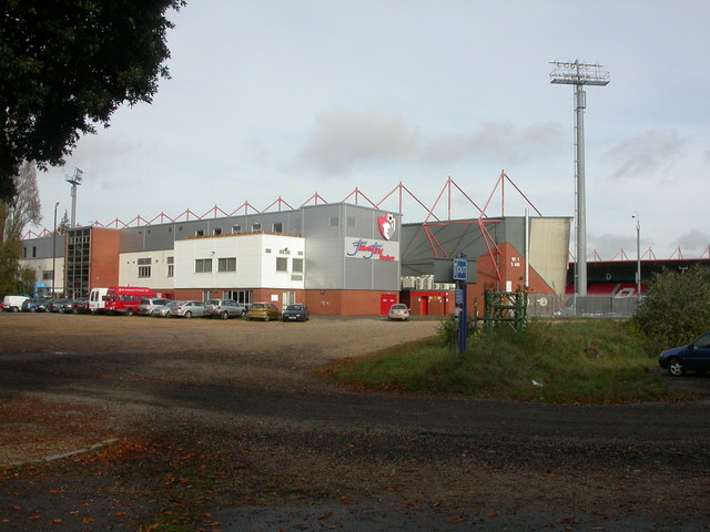 Boscombe, Fitness First Stadium. In King's Park, HQ of AFC Bournemouth.